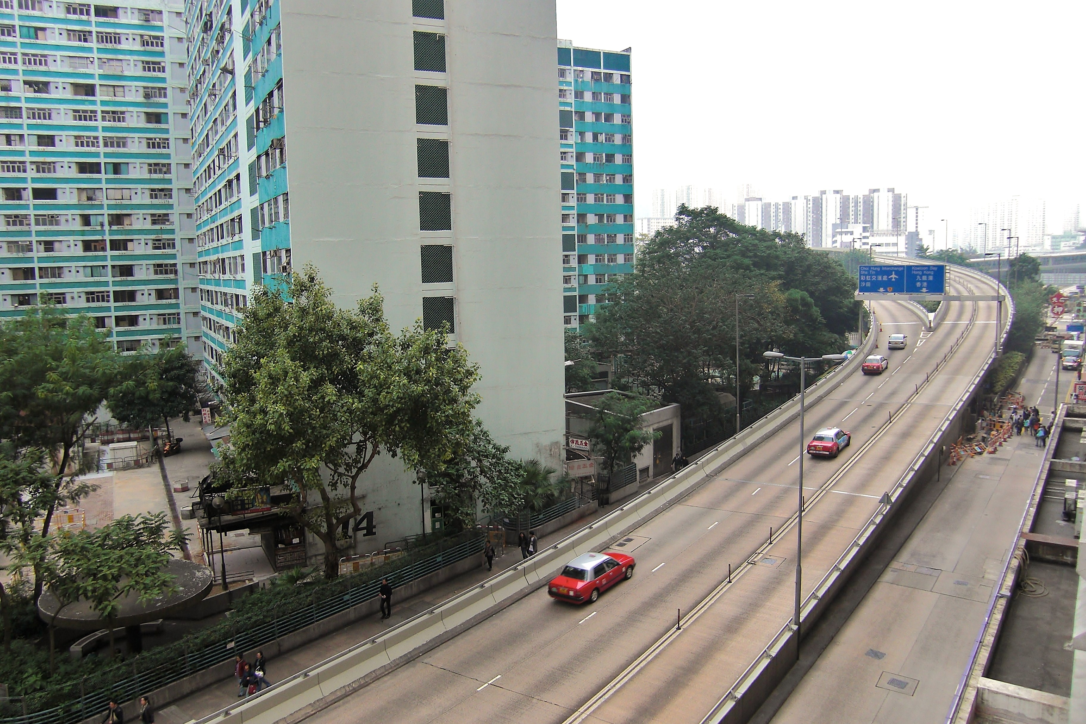 An overview of the Kai Cheung Road Flyover from Amoy Garden is seen. Lower Ngau Tau Kok Estate stands in the background.